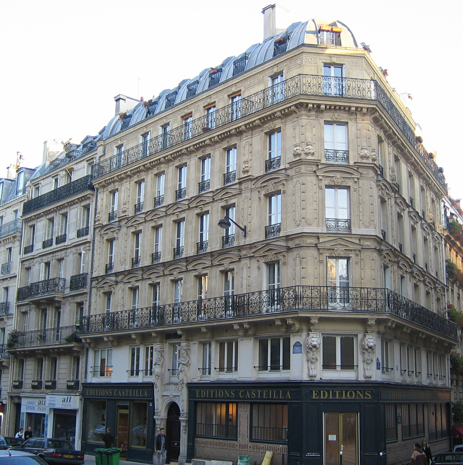 Rue Monge, Paris. Example of haussmannian architecture.